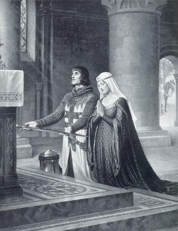 The Dedication